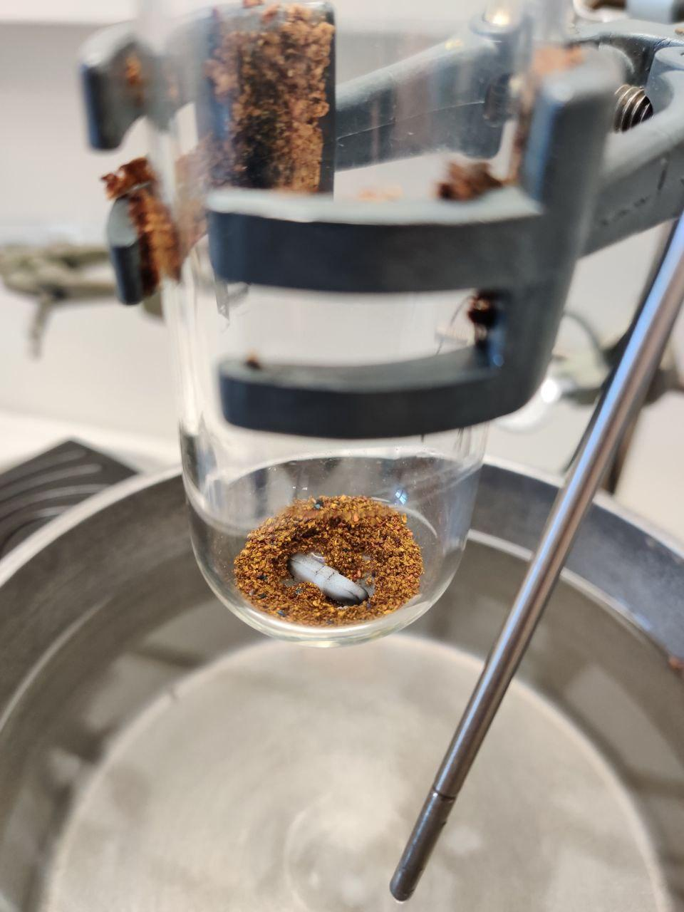 Potassium graphite under argon atmosphere in a Schlenk flask